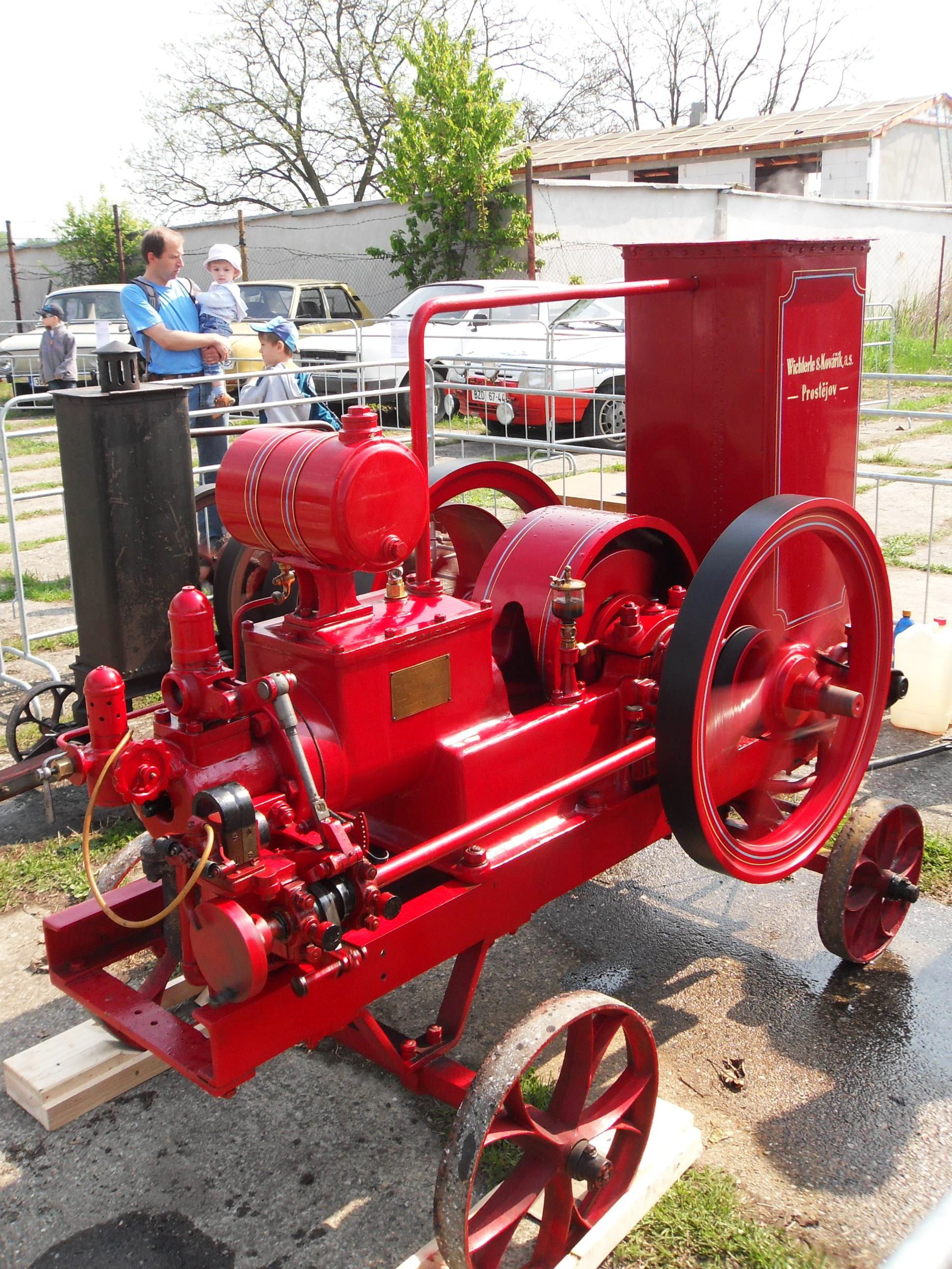 Wikov engine, depository of Technical Museum in Brno, Czech Republic